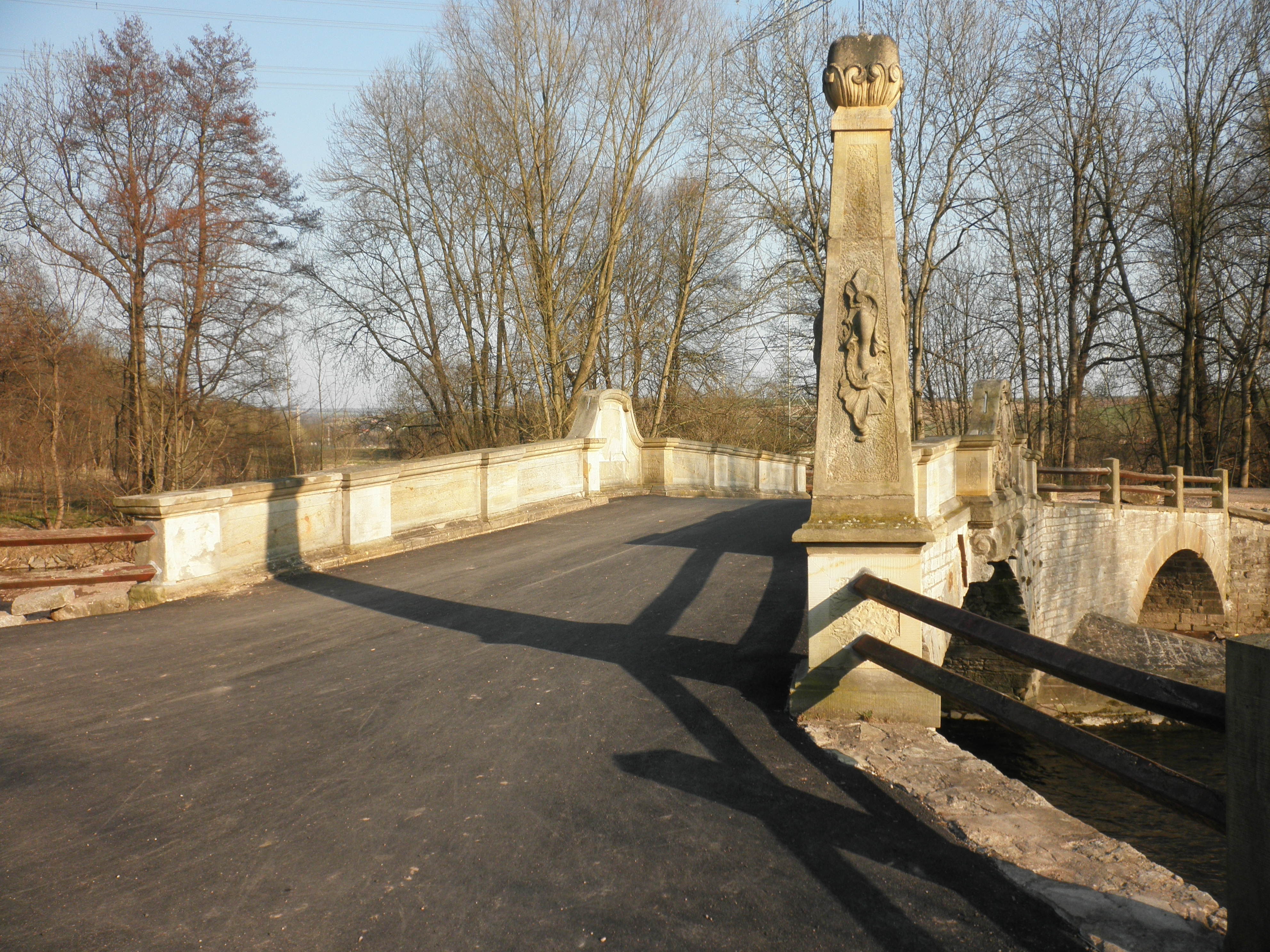 Stone Bridge near Erfurt in Thuringia